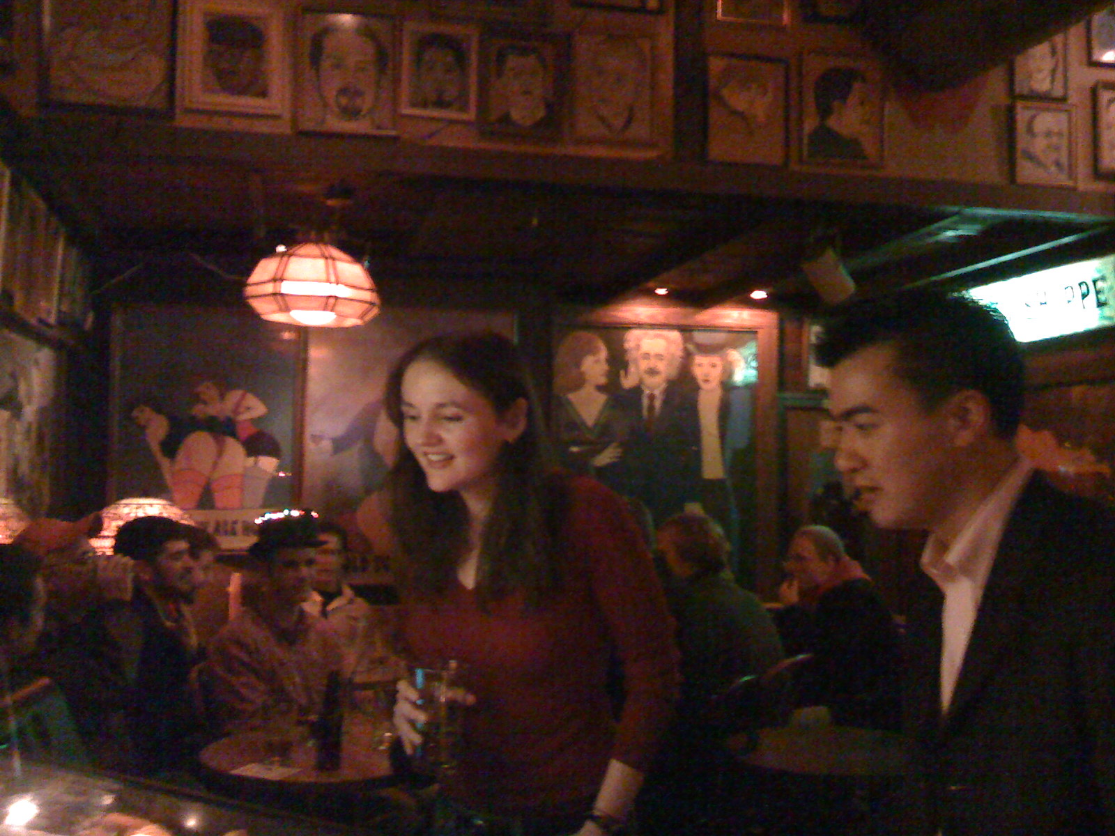 pinball at Old Town Ale House